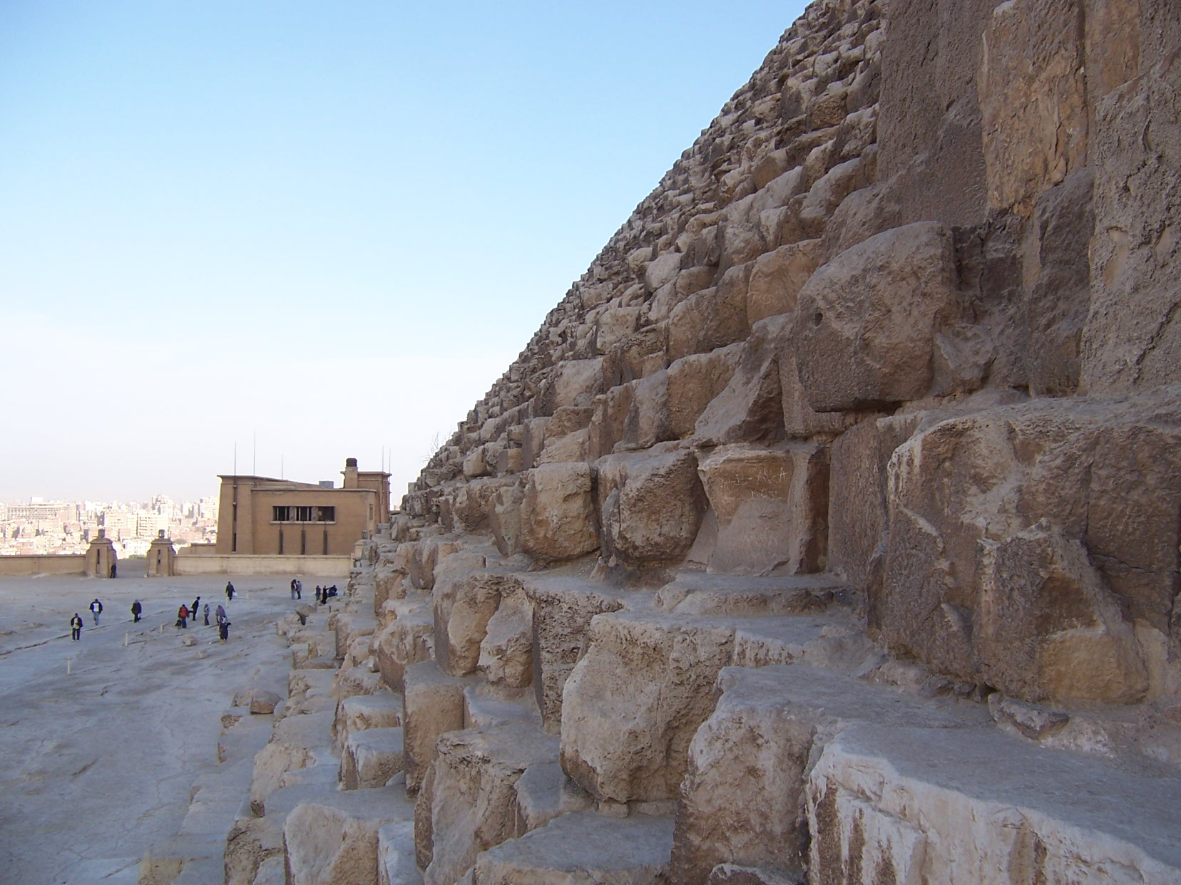 The Pyramids of Giza, Egypt